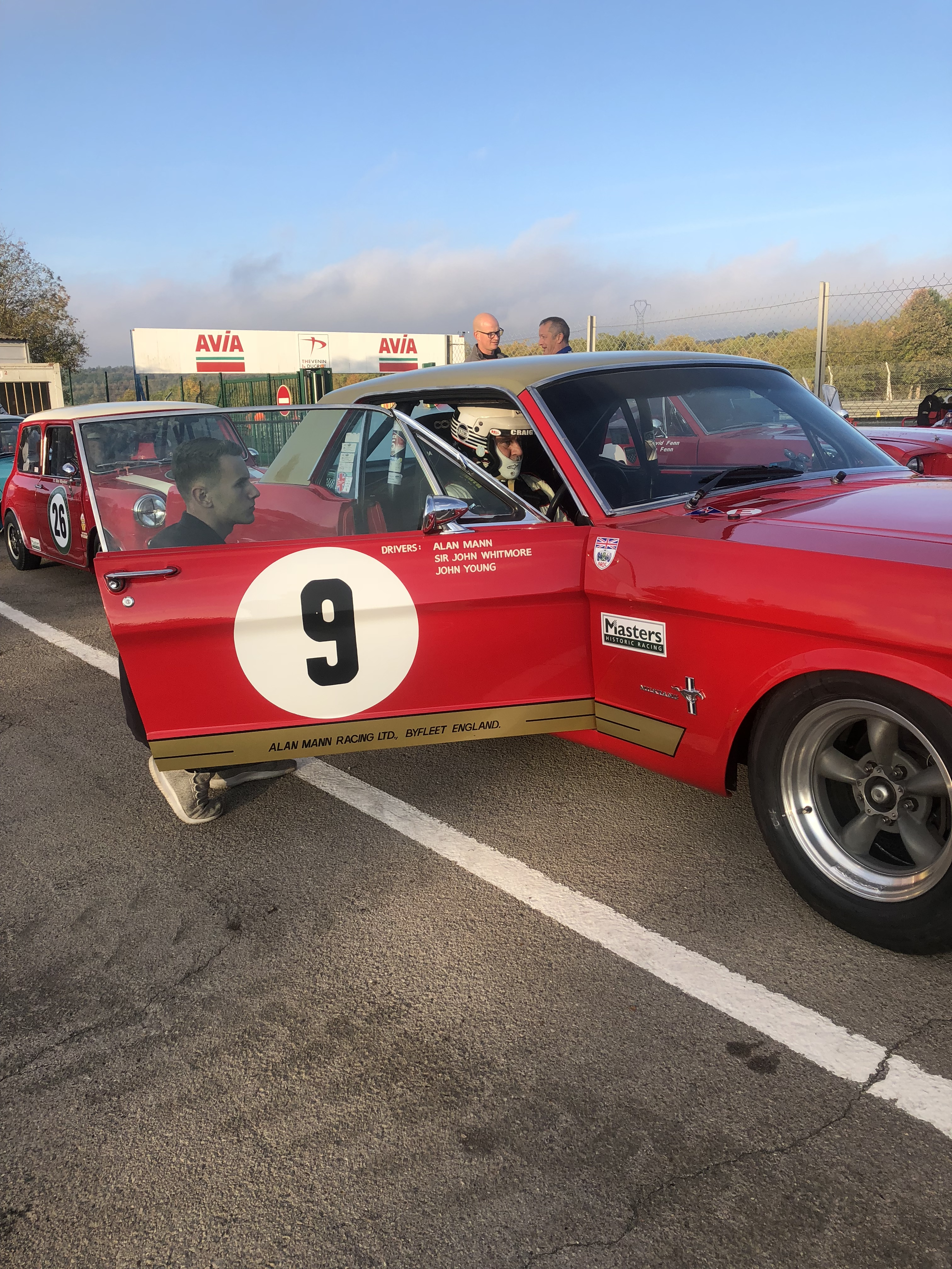 Alan Mann Mustang taken at Dijon-Prenois finished 1st in Masters